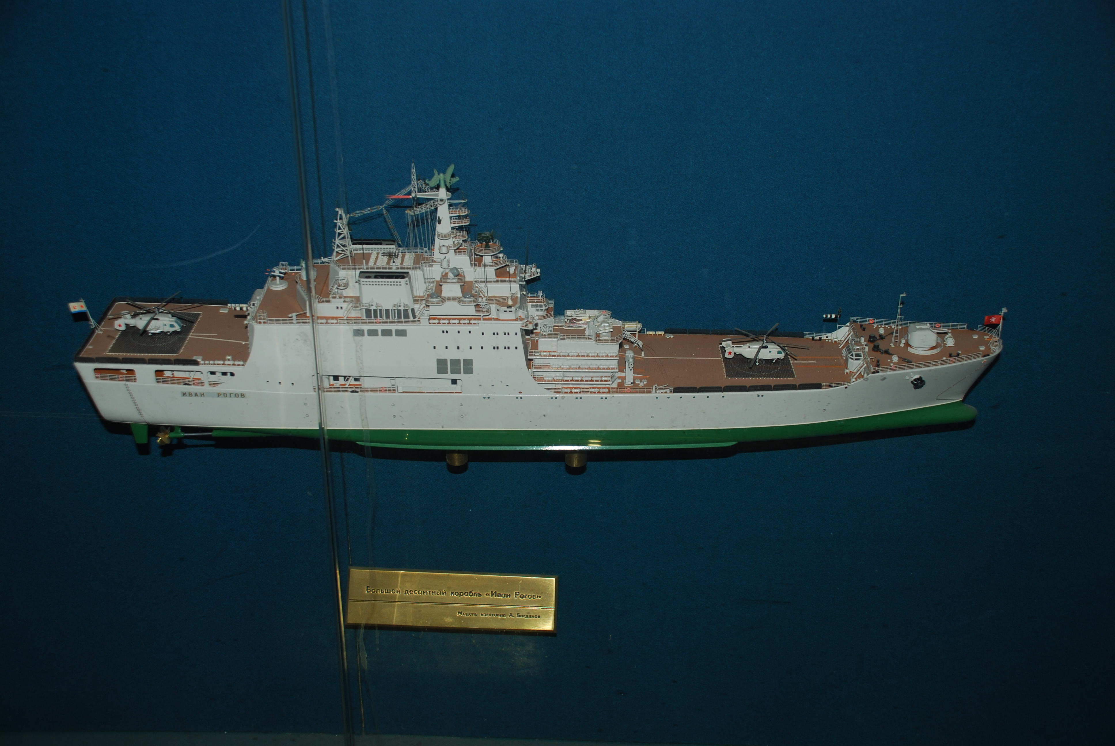 Ivan Rogov Landing Ship Model from cruiser Aurora museum)(model author A.Bogdanov)